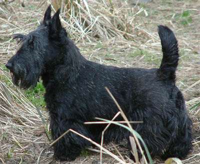 Picture of a Scottish Terrier taken by Matthew MacKenzie, February 2003. The photographer has released this picture under the GFDL.